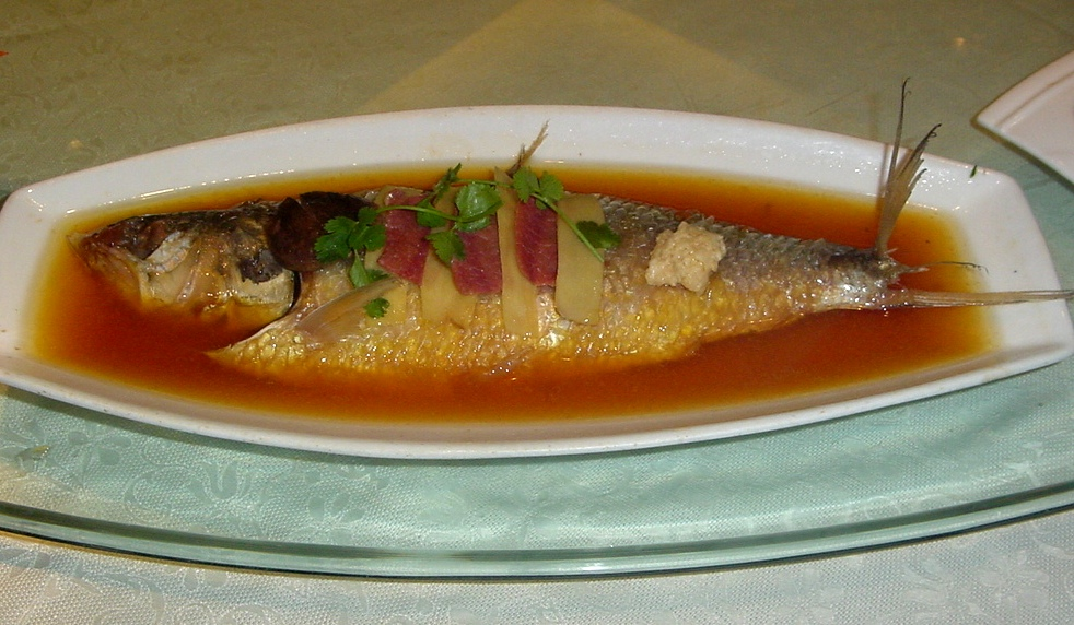 Steamed shad in Jiangsu cuisine